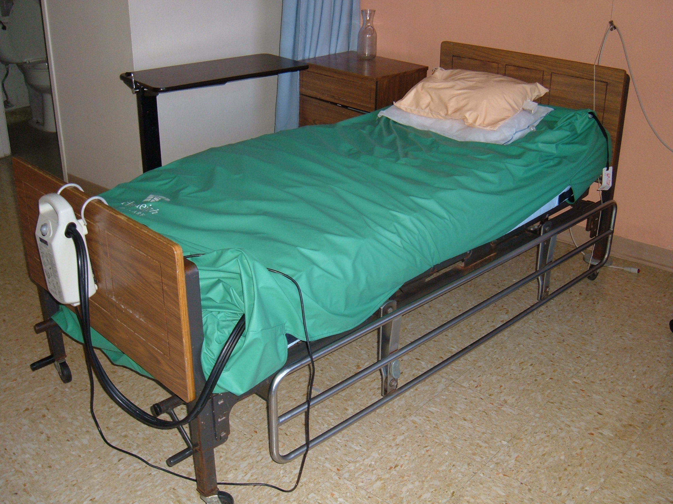 A Betabed Alternating Pressure Pad System (green padding) on a nursing home bed in Daly City, California.